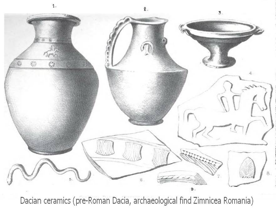 Archaeological finds: Dacian ceramics from Zimnicea Romania (pre-Roman Dacia) notes = 1) Urn (height 76 cm) with a rider depiction repeated 6 times 2) Cup with the representation of a snake and a horse's hoof 3) Pedestal platter 4) The rider from #1 (urn) 5) The snake from # 2 (cup) 6) ornament from #1 urn 7) ornament 8) ornament 8) ornament